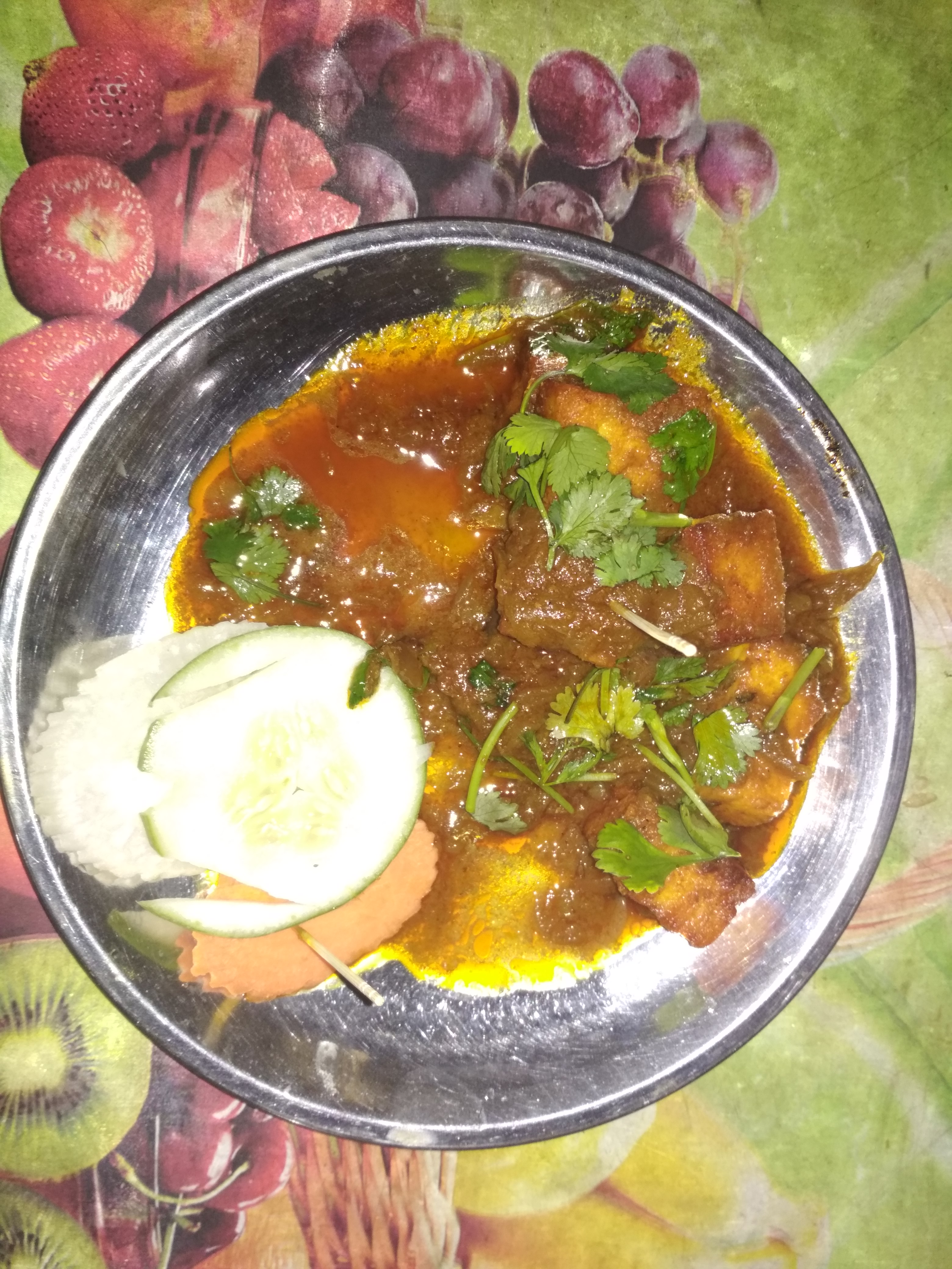 Spicy Paneer Dish